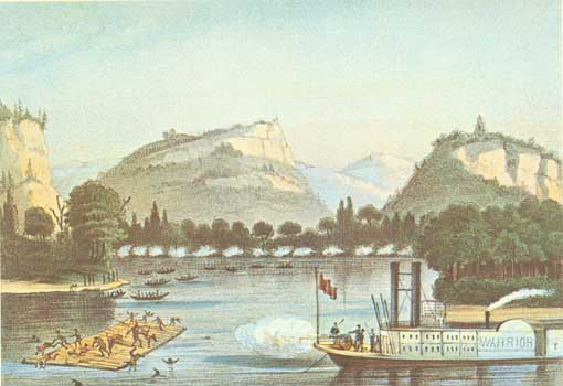 A depiction of the 1832 Battle of Bad Axe and the steamboat Warrior. The battle was the decisive engagement of the Black Hawk War, more than 150 Sauk and Fox were killed. The steamboat took part in the battle with Captain Joseph Throckmorton at the helm.